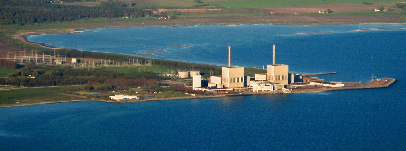 Barsebäck in Sweden, nuclear power plant and transmission substation – air photo